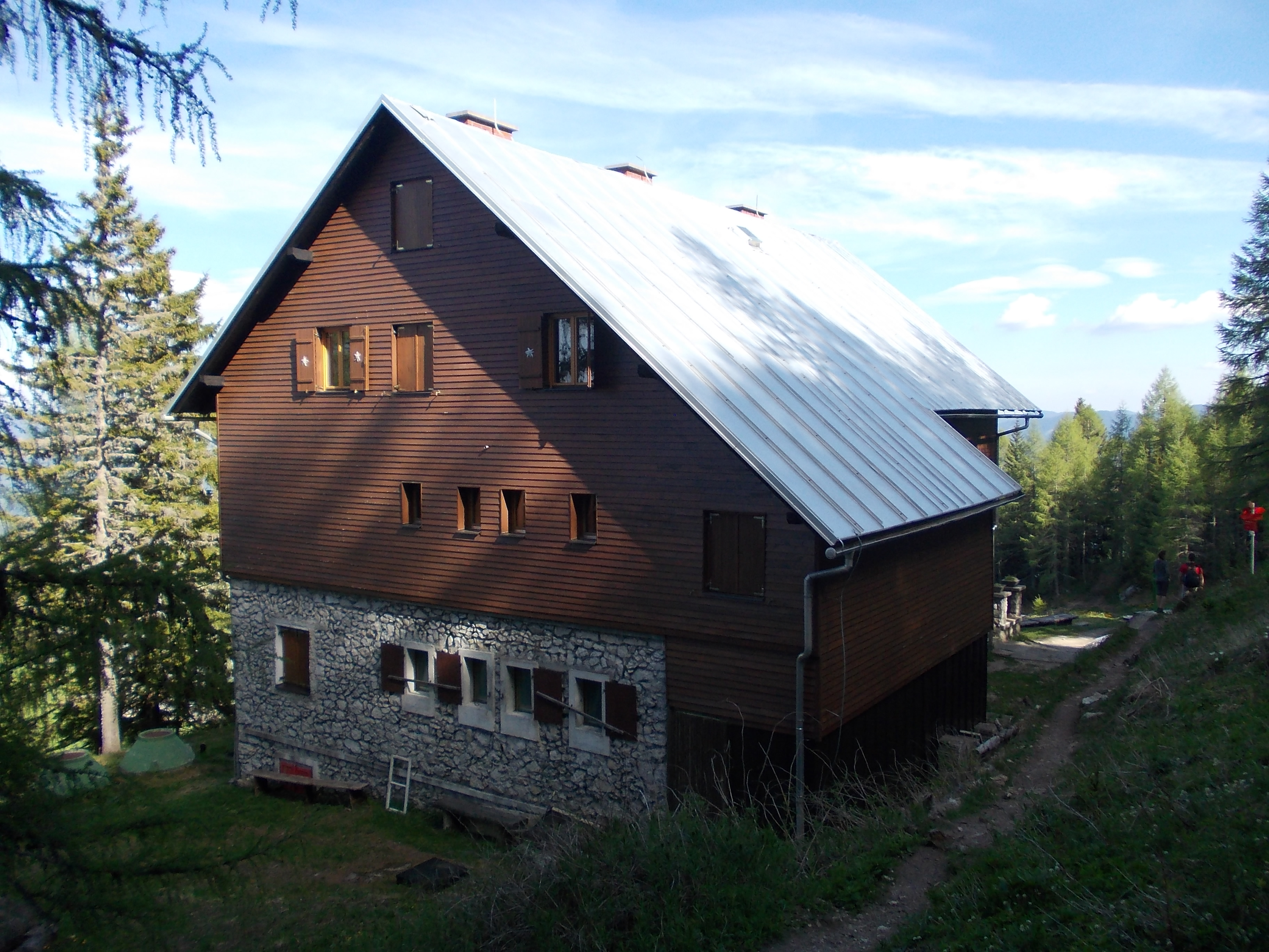 Lodge on Peca